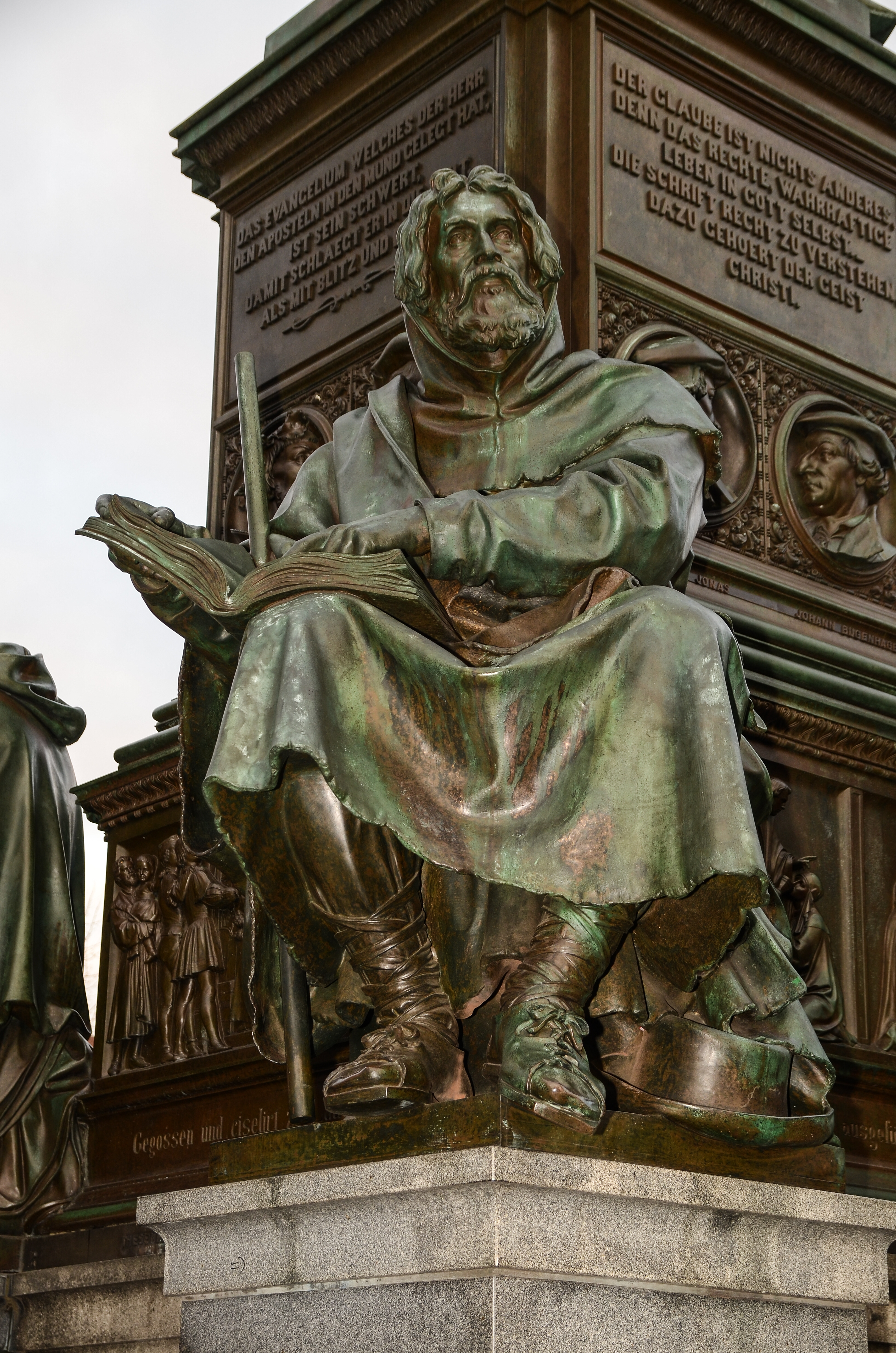 1868 statue of Peter Waldo at the Luther Memorial in Worms, Germany